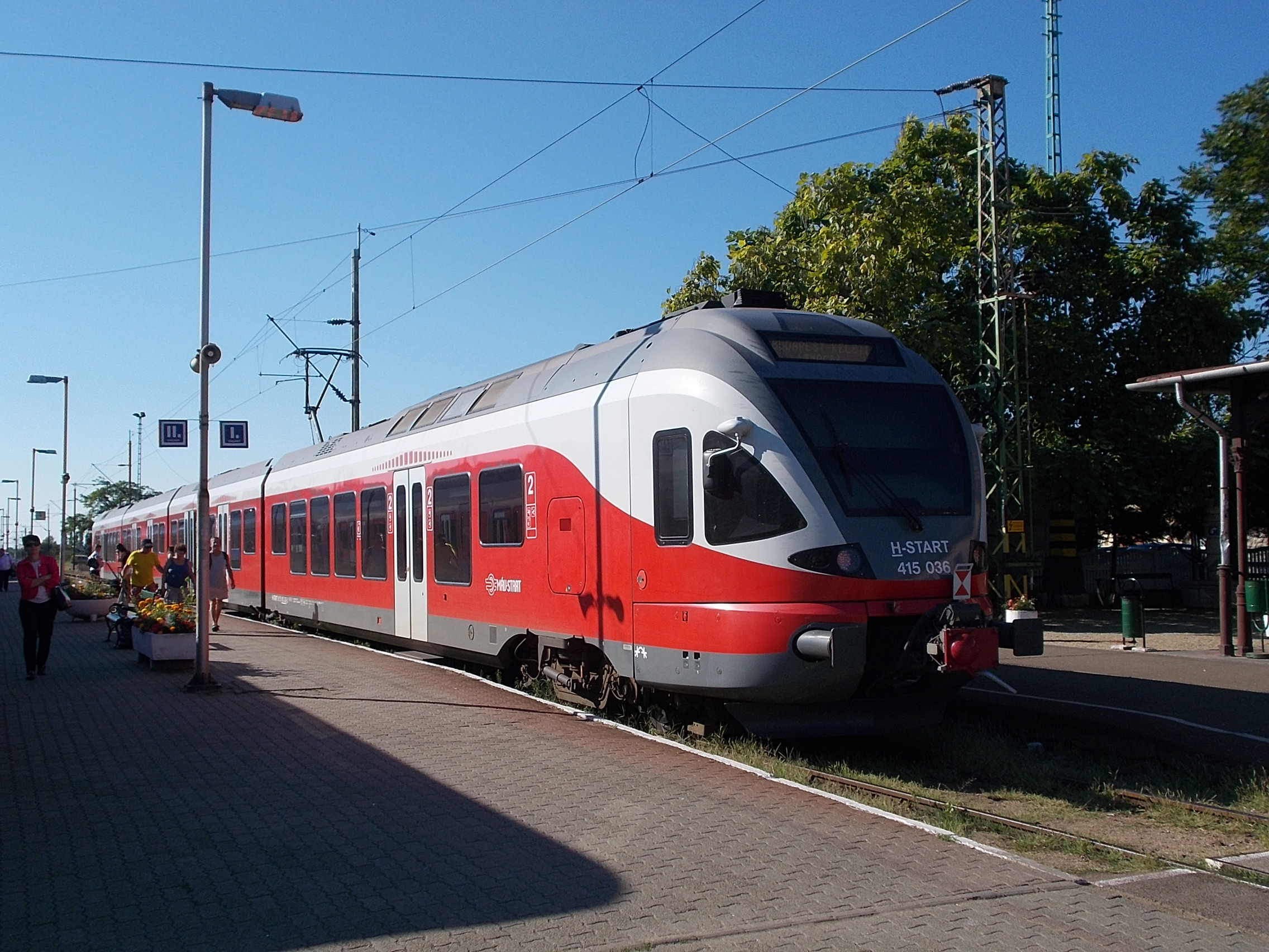 Eger railway station. - Állomás Square, Eger, Heves County, Hungary.